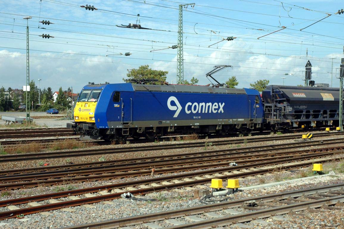 Connex Cargo Logistics' locomotive 185-CL 001 seen in Bruchsal.